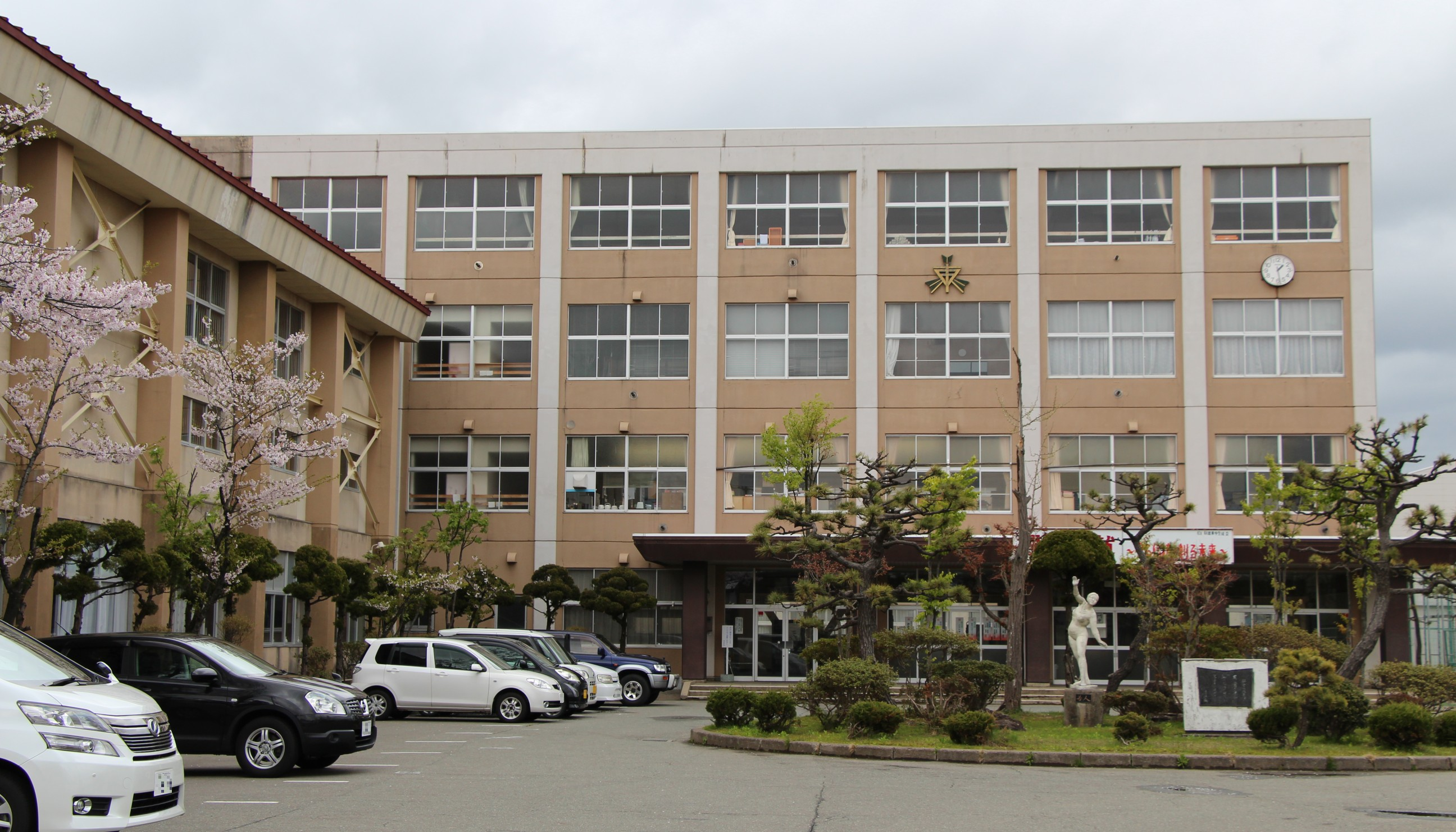 Akita city Akita-Higashi junior high school. Taken on May 3, 2013.